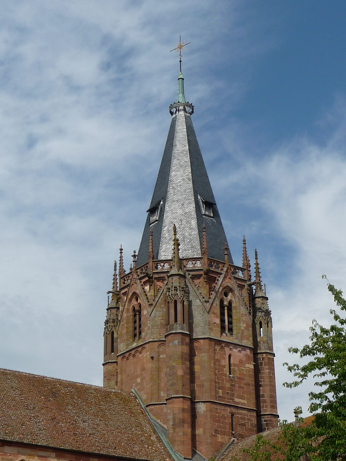 Saints-Pierre-et-Paul, Wissembourg, Alsace, France